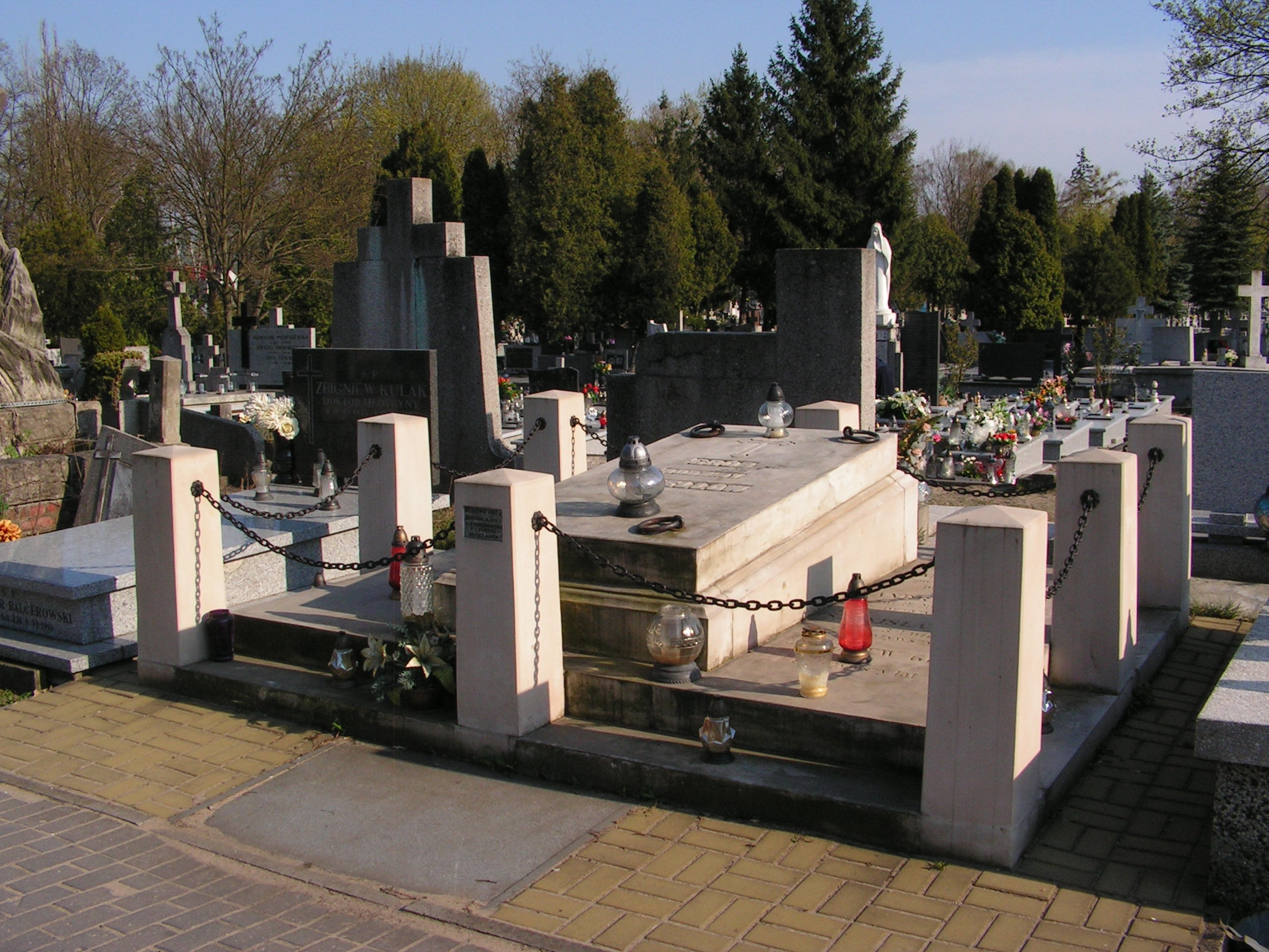 Grave of Gruell family on Communal Cemetery in Włocławek.